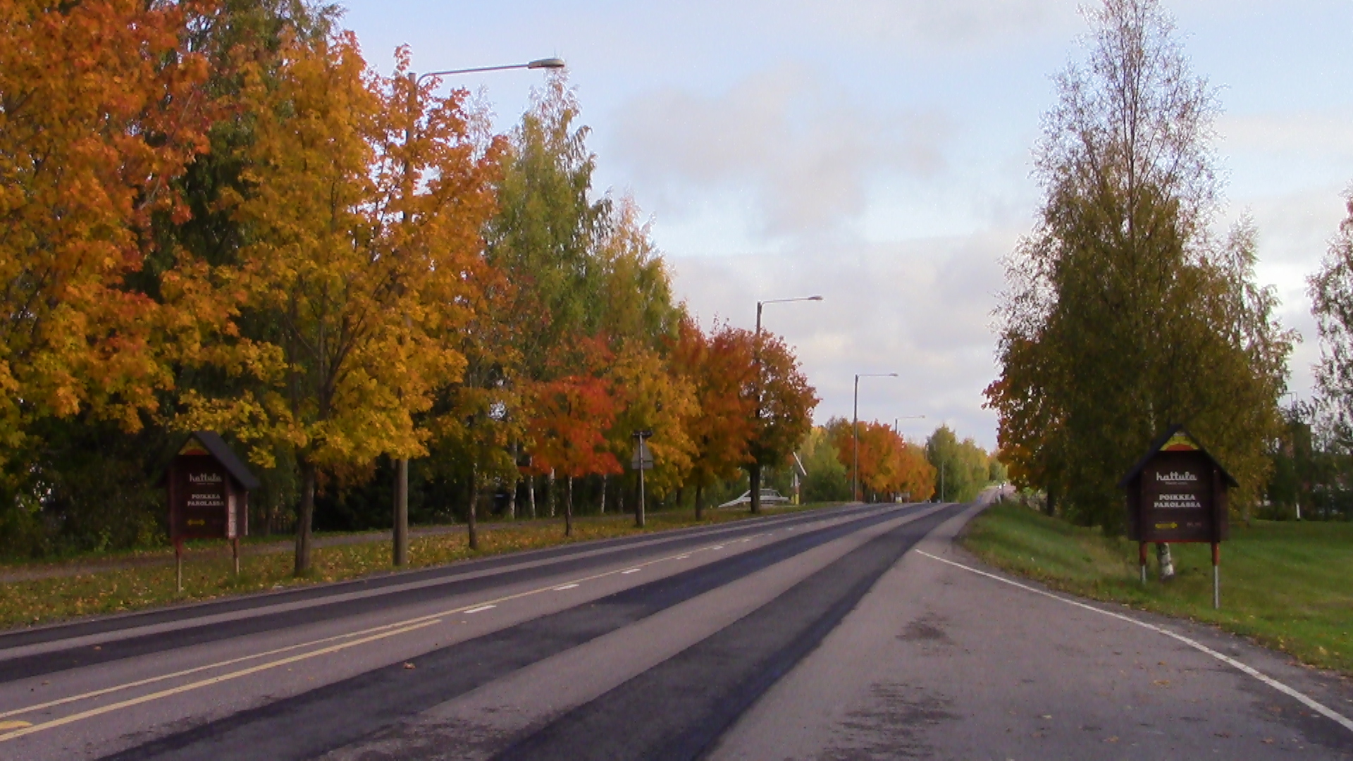 Finnish connecting road 3051 at Parola in Hattula. The road runs from regional road 130 through Parola to national road 57.